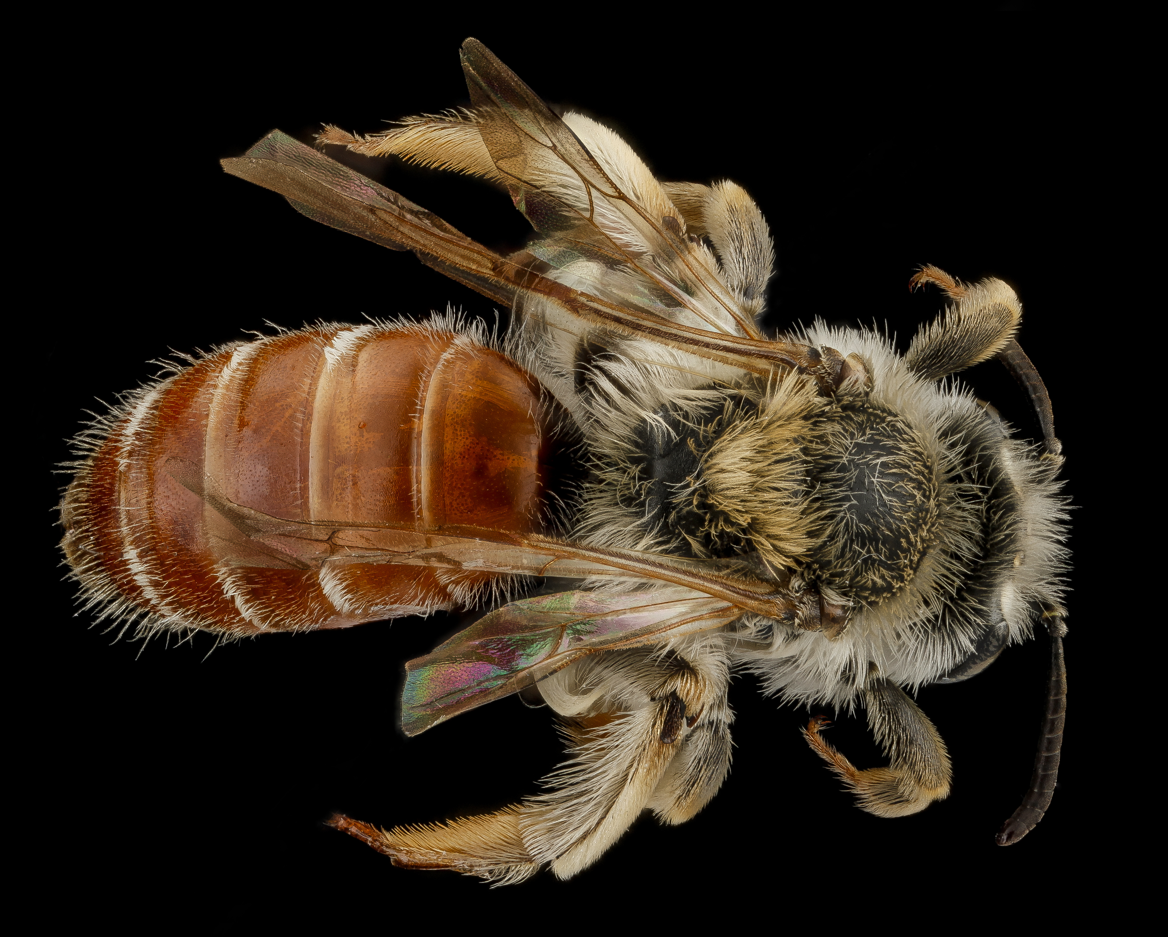 Badlands national Park, South Dakota